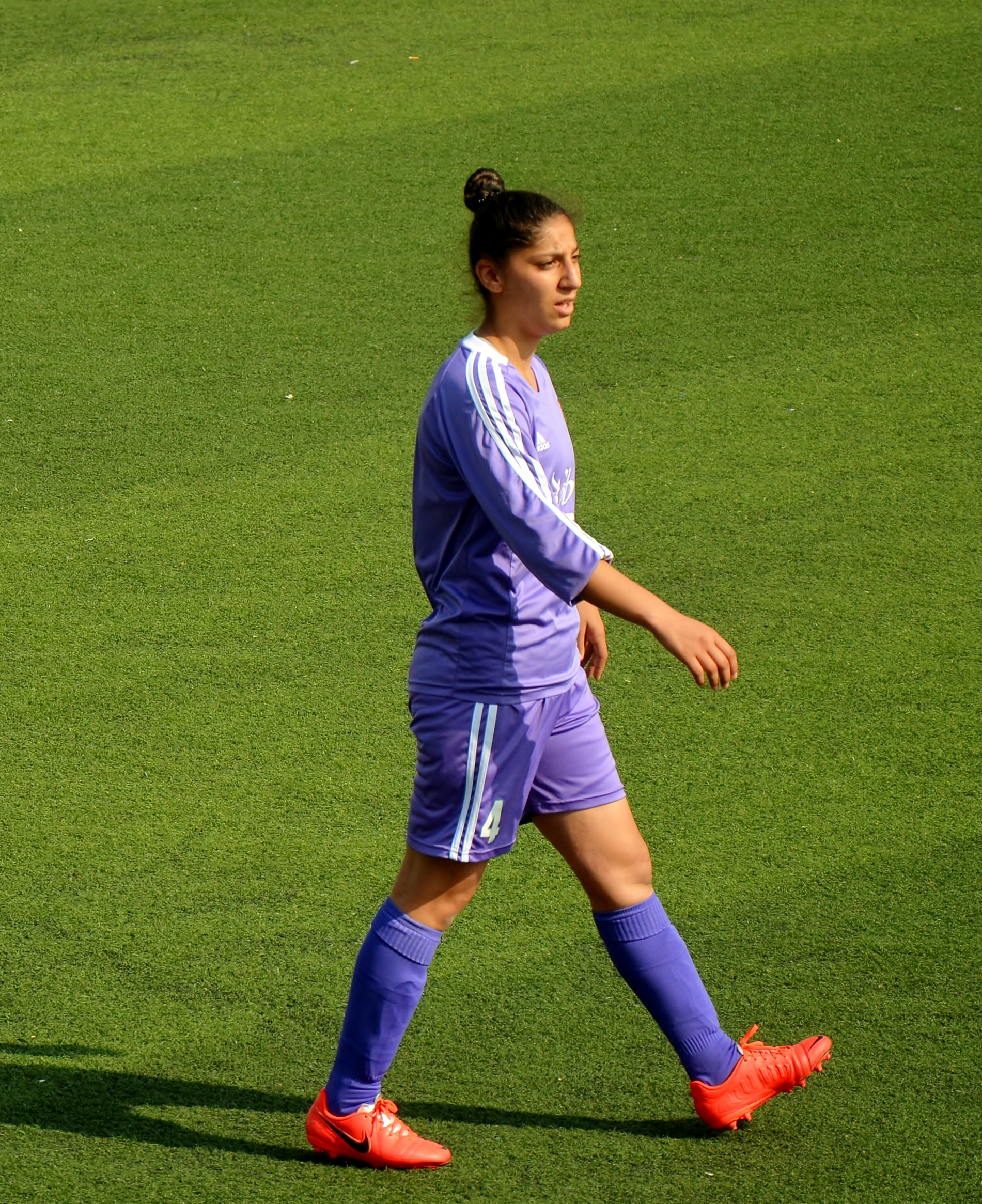 Deya Arhan playing for Karadeniz Ereğlispor in the 2014-15 season's away match against Ataşehir Belediyespor.